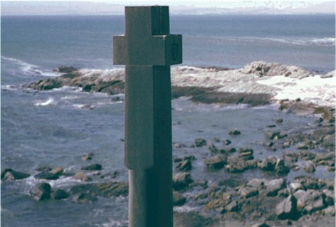 Dias Cross at Diaz Point, Lüderitz, Namibia